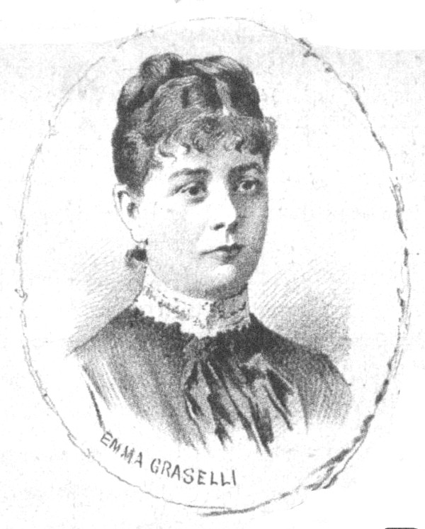 Portrait of Emma Graselli (1858-??), Austrian dancer.